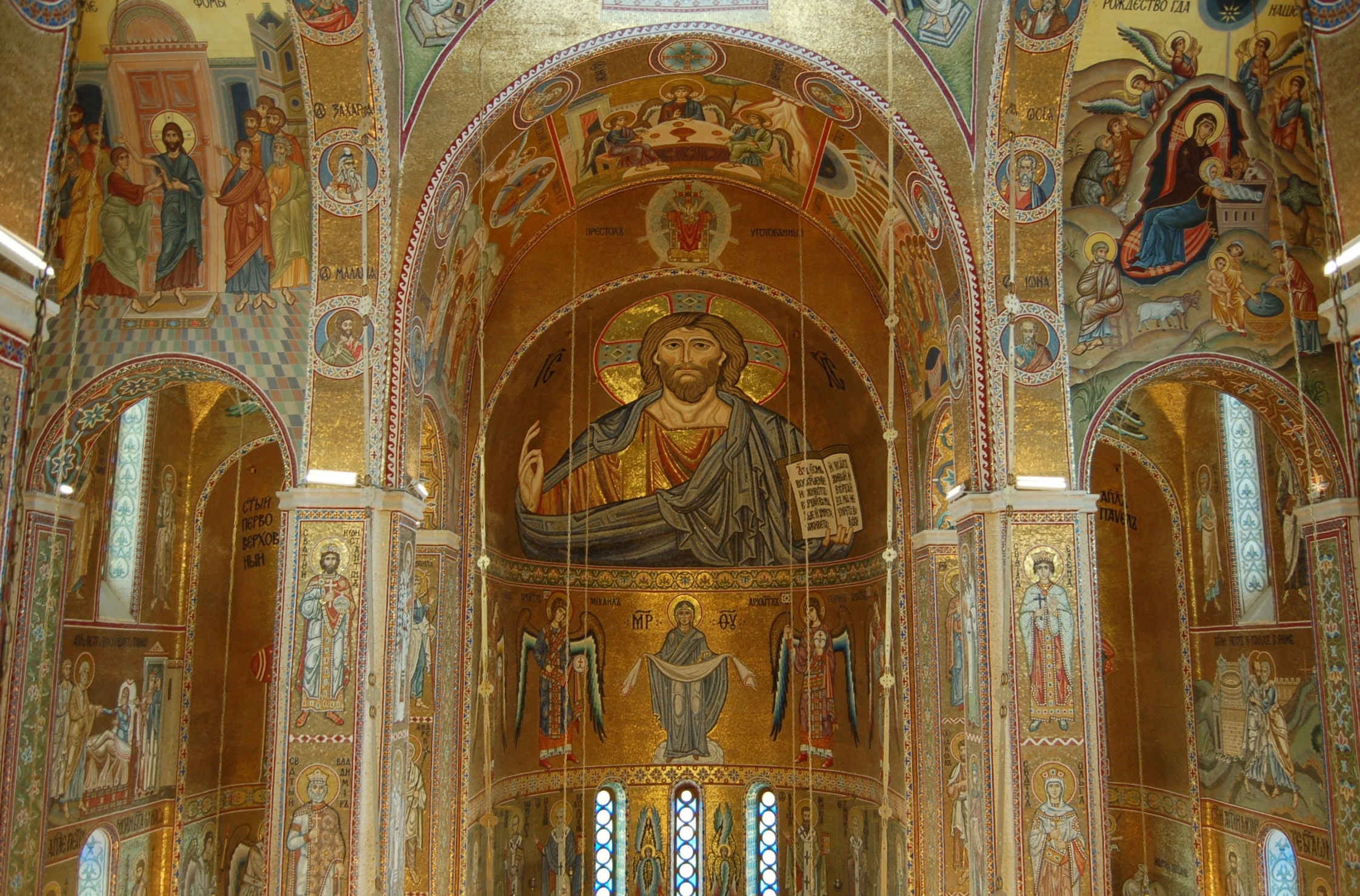 Moscow Churches, photographed September 2015 Church of the Protection of the Mother of God, Yasenevo (photographed while still under construction)